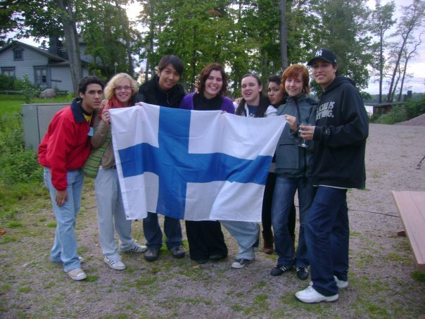 Picture of a summer camp of Maailmanvaihto ry